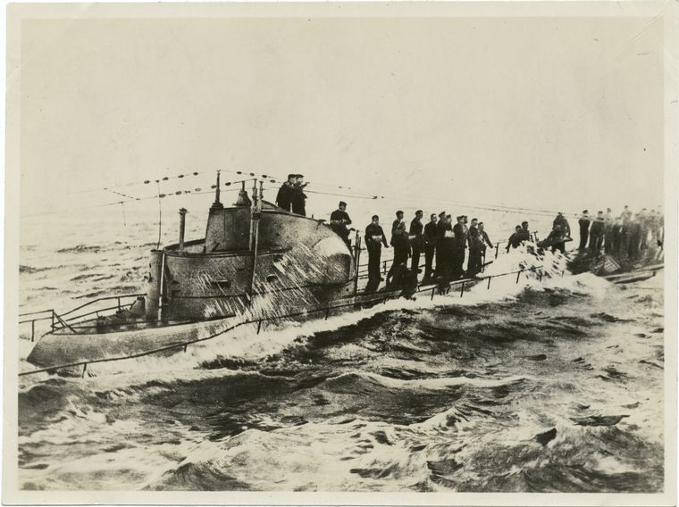 The U-58, captured by the U.S.S. Fanning and U.S.S. Nicholson (17 November 1917). Image ID: 437637